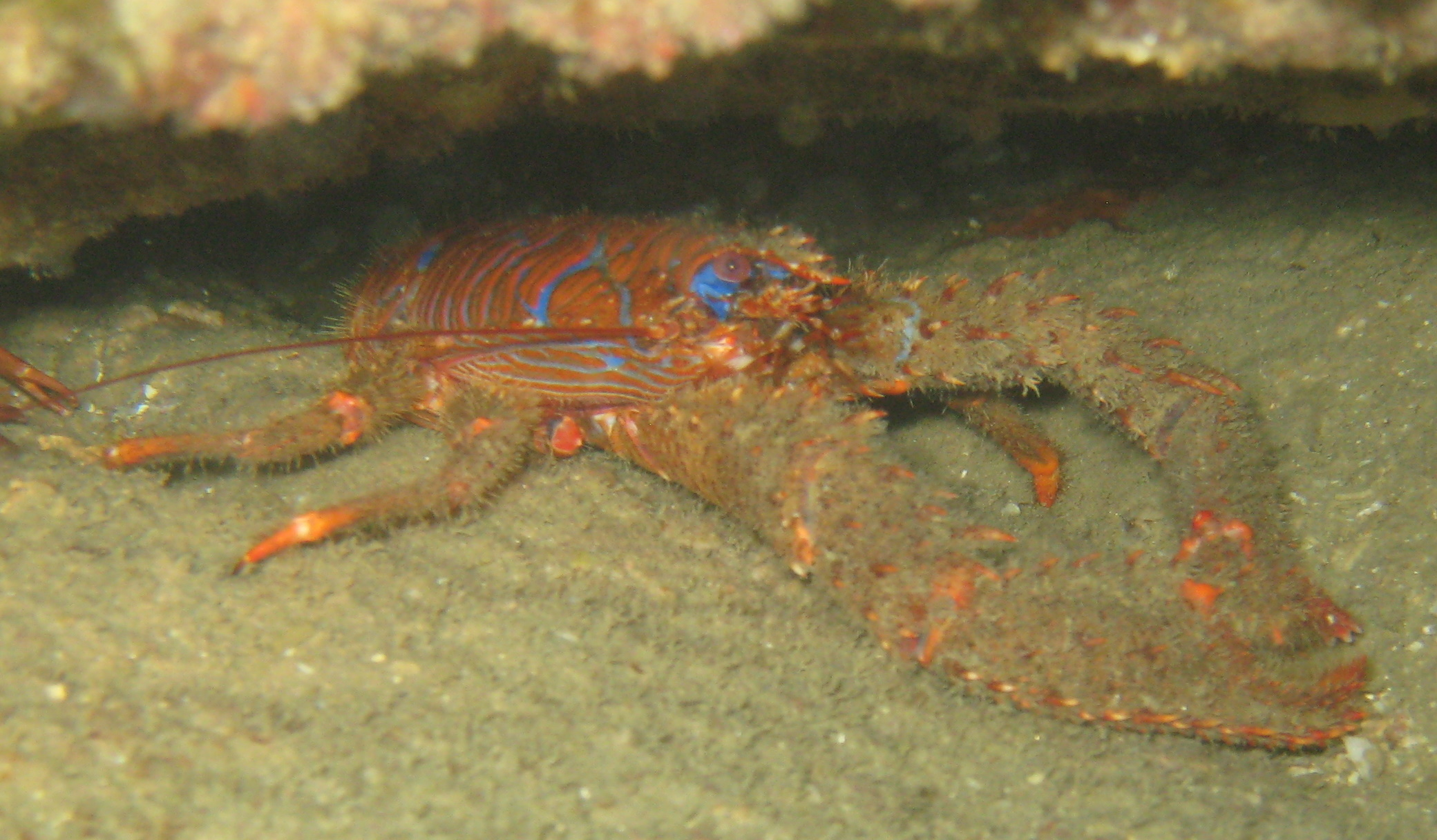 Galathea strigosa in Saint-Quay-Portrieux